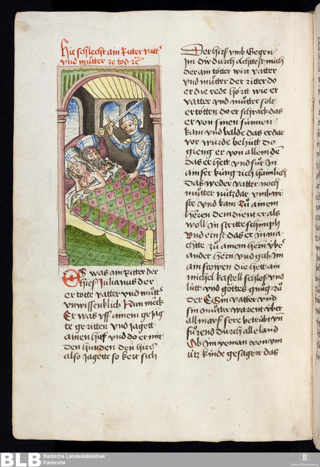 Gesta Romanorum - Donaueschingen 145, a manuscript from Upper Swabia in Germany from circa 1452.